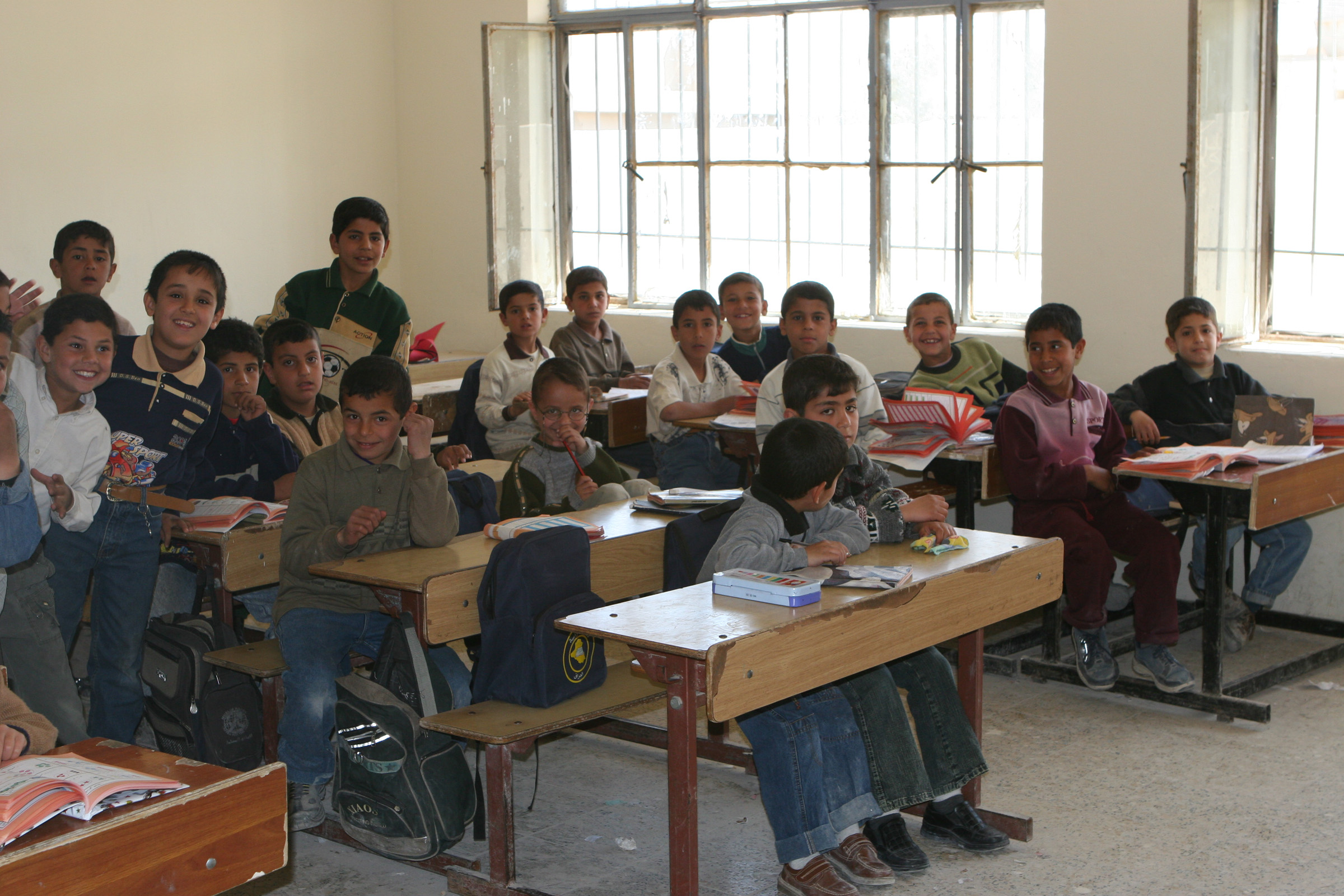 Iraqi school children take a break from studying and smile for the camera. The Palestine School in Fallujah, Iraq was recently reconstructed.